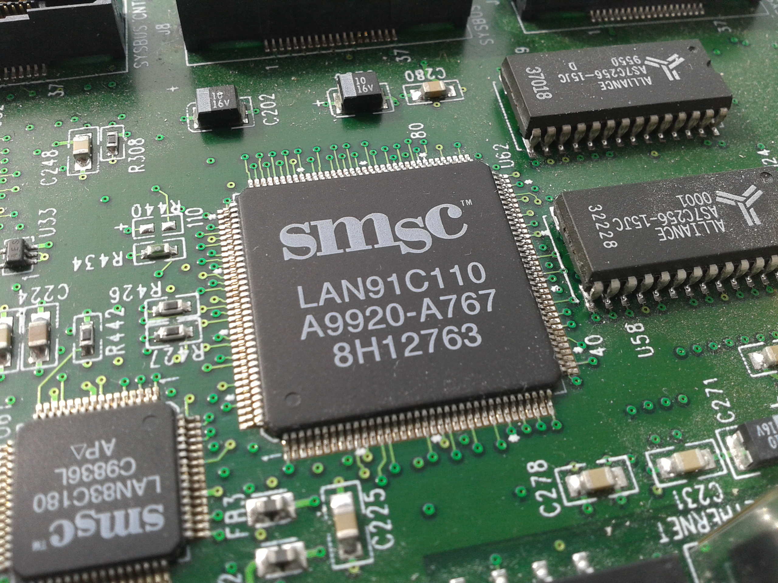 A close-up of the SMSC 91C110 (SMSC 91x) chip on an embedded system.